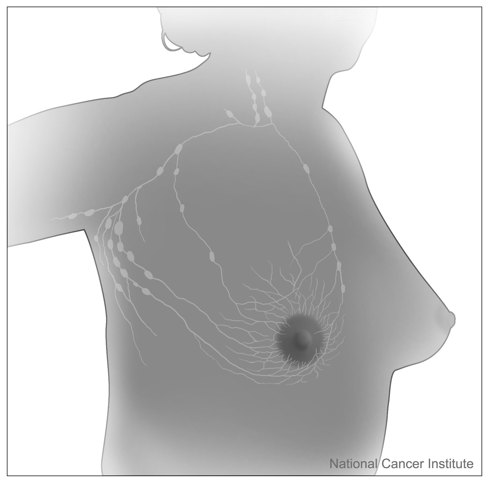 Title Breast and Adjacent Lymph Nodes Description The female breast (nipple, areola, ducts, lobes, lobules, and fatty tissue) and adjacent lymph nodes and lymph vessels (no labels appear in the illustration). Image is included in this publication: Topics/Categories Anatomy -- Breast Type B&W, Medical Illustration Source National Cancer Institute (NCI)